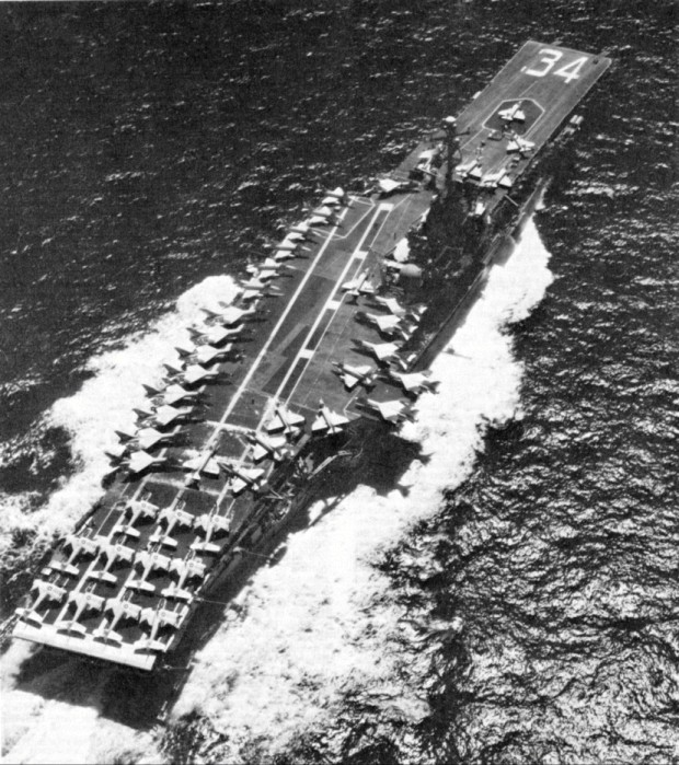 Overhead view of the U.S. attack aircraft carrier USS Oriskany (CVA-34) underway with Attack Carrier Air Wing 16 (CVW-16) during her deployment to Vietnam from 16 June 1967 to 31 January 1968.